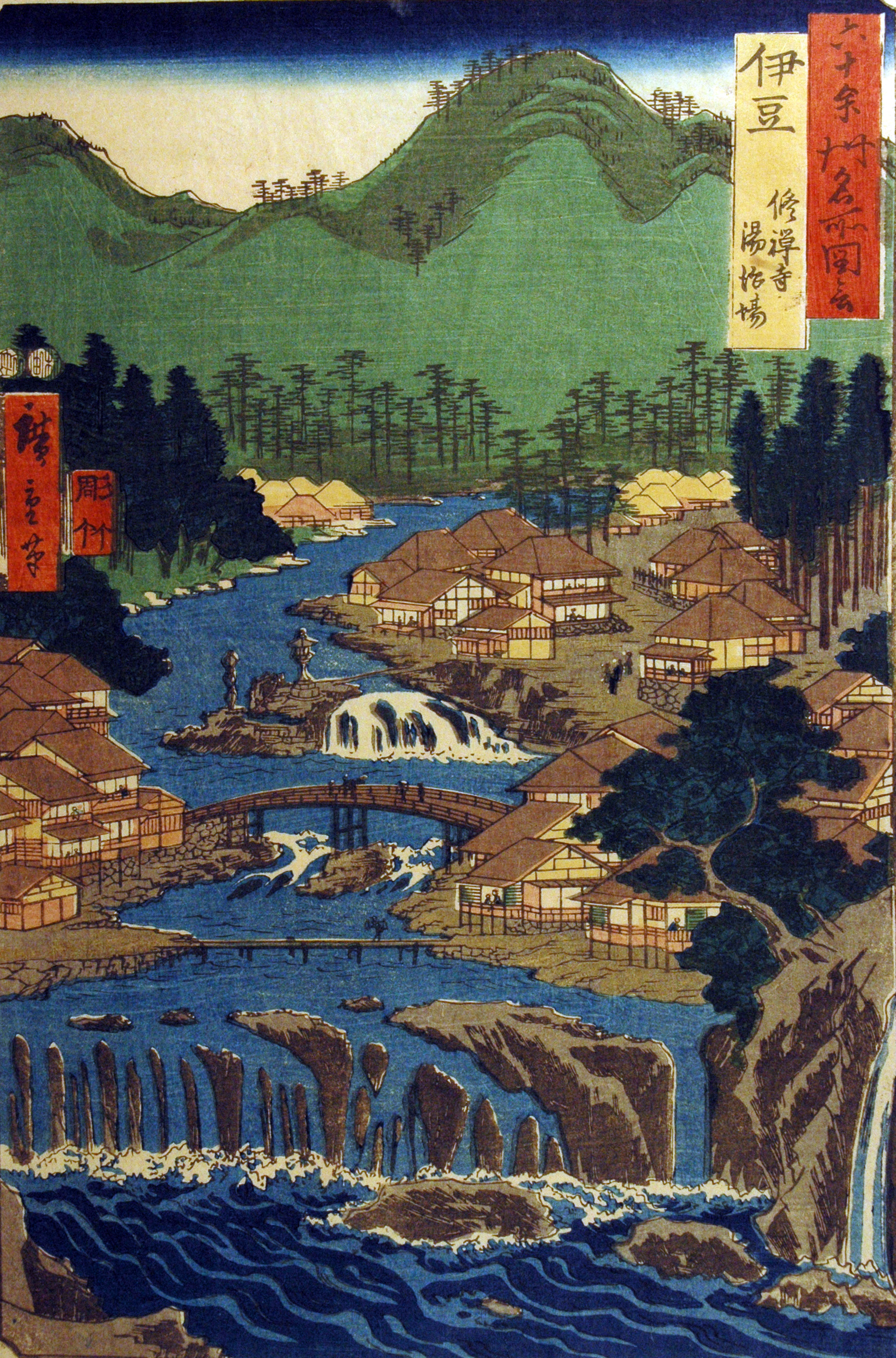 Accession Number: 1957.265 Display Artist: Utagawa Hiroshige Display Title: "Izu Province, The Hot Springs of the Shuzen Temple" Translation(s): "(Izu, Shuzenji, Tojiba)" Series Title: Famous Views of the Sixty-odd Provinces Suite Name: Rokujuyoshu meisho zue Creation Date: 1853 Medium: Woodblock Height: 13 1/2 in. Width: 9 in. Display Dimensions: 13 1/2 in. x 9 in. (34.29 cm x 22.86 cm) Publisher: Koshimuraya Heisuke Credit Line: Bequest of Mrs. Cora Timken Burnett Label Copy: "One of Series: Rokuju ye Shin. Meisho dzu. ""View of 60 or More Provinces"". Published by Koshei kei in 18 53-1856. Included in this collection are 3 duplicates." Collection: The San Diego Museum of Art